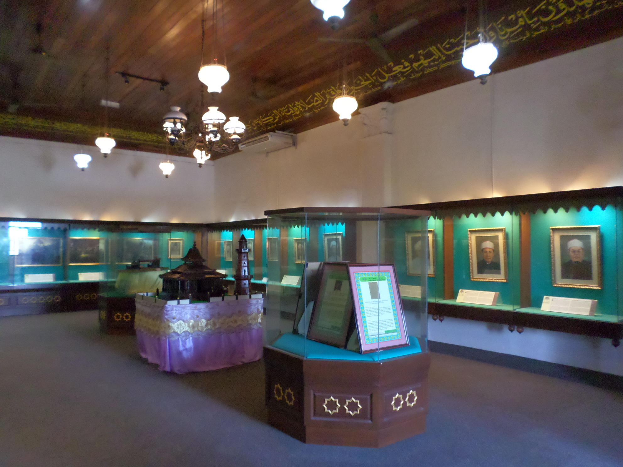 Malacca Islamic Museum, Central Malacca, Malacca, MalaysiaBahasa Melayu: Muzium Islam Melaka, Melaka Tengah, Melaka, Malaysia